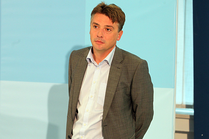 The Mayor of Skopje since 2017